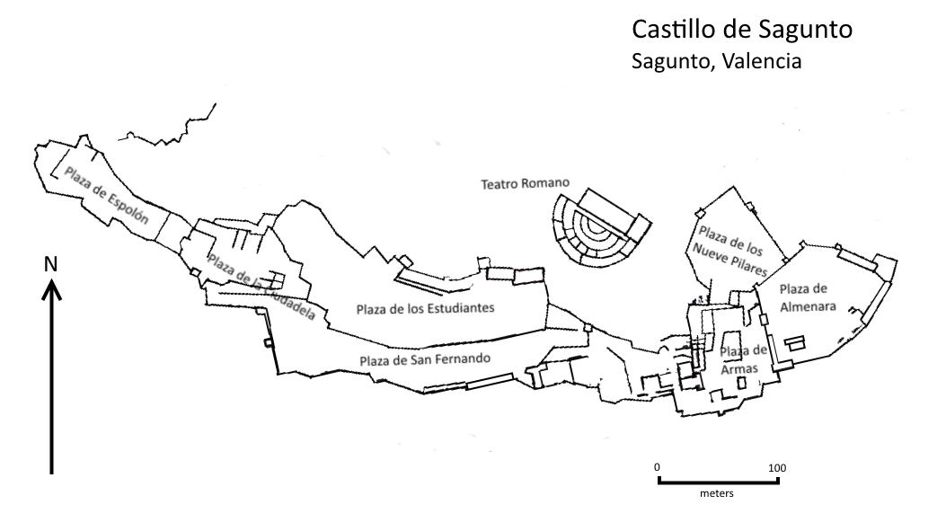 Map of Sagunto Castle, Valencia, Spain. Sources: Google Earth satellite imagery Centro Arqueológico Saguntino (1972). Aspectos gráficos del Castillo de Sagunto. Revista ARSE, 12, pp. 35–36/67-68. Sagunto, Spain: Centro Arqueológico Saguntino. (Spanish) Baixauli i Bach, Vicent (2013). Alberg per a estudiosos i viatgers al Castell de Sagunt. Valencia, Spain: Escola Tècnica Superior d’Arquitectura de València, Universitat Politècnica de València (Catalan)